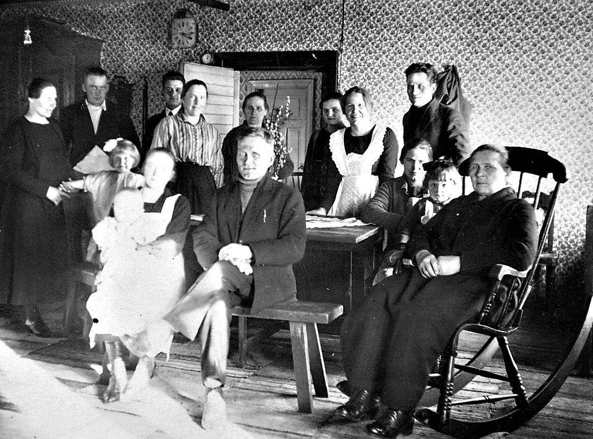 To houset Fallbacka people have gathered year 1926 to participate in the funeral of the Master Fredrik Viktor Fallström. In the image is the new Master of the house, the young Aksel Fallström with his wife, siblings och neighbours. Dressed in chaperon is the sister of Aksel Ester, who managed the household. The 8-years old Margareta is sitting on lap of her mom, Hilma, to the right by the table.